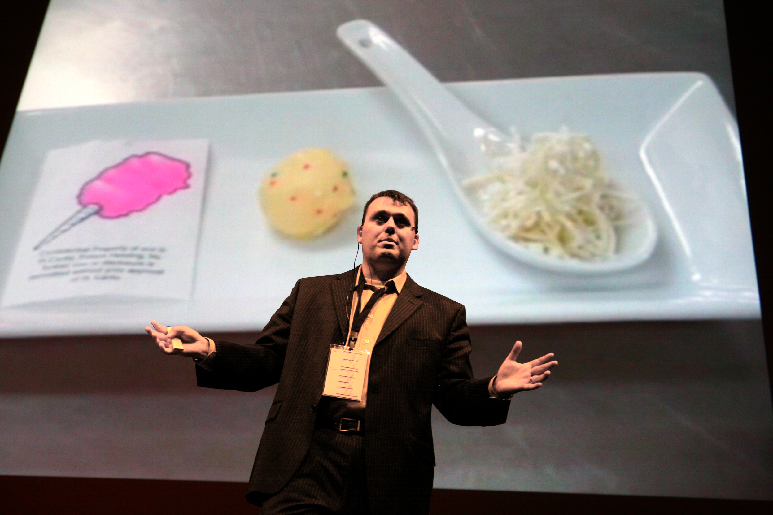 Homaro Cantu presenting at the Cusp Conference 2008, Chicago, IL